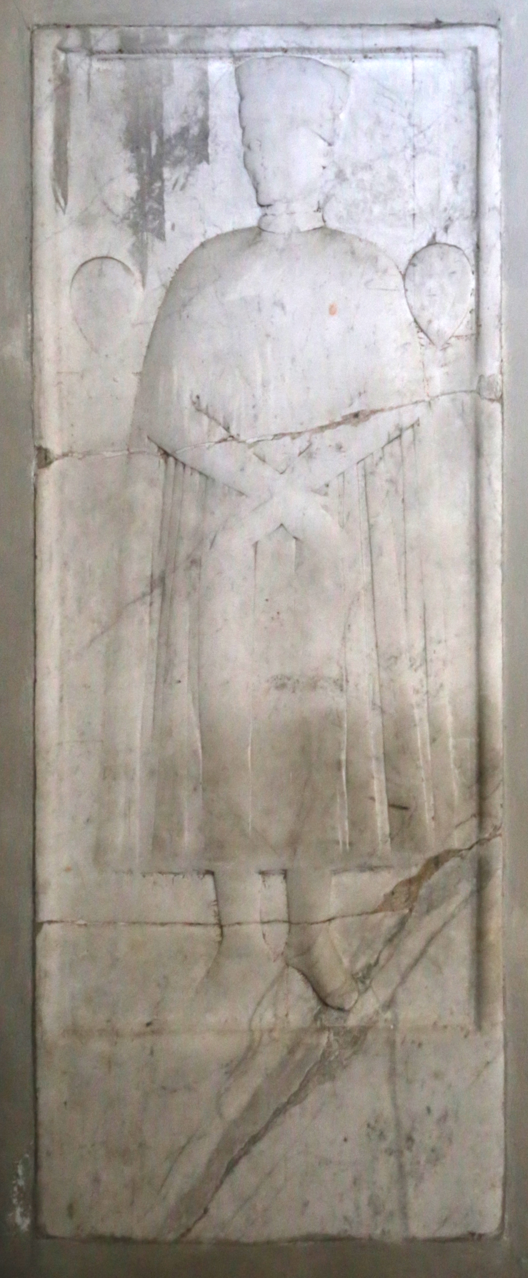 San Martino a Gangalandi - Interior